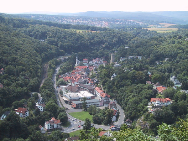 Eppstein's castle and town as seen from the Kaisertempel. Photo taken by Daniel Shakespear